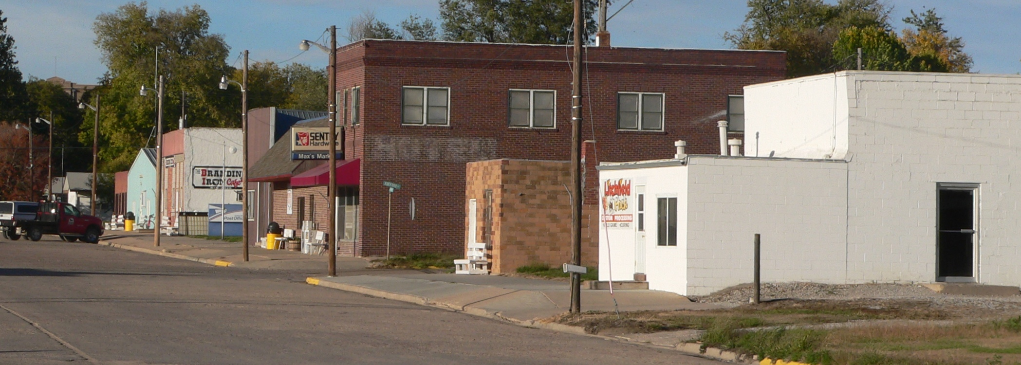 Downtown Litchfield, Nebraska: east side of Main Street, seen from about Clifford Street.